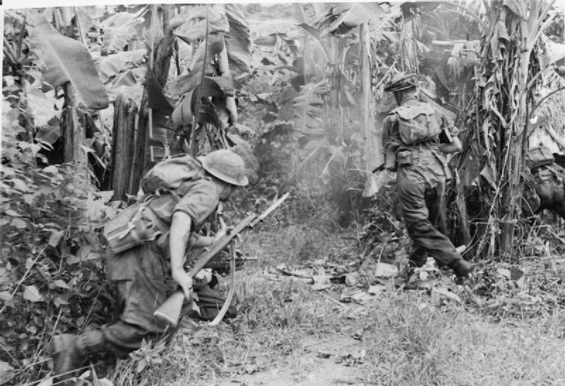 The British Army in Burma 1944 Troops attack a native 'basha' (bamboo hut) in a banana grove, 6 November 1944.